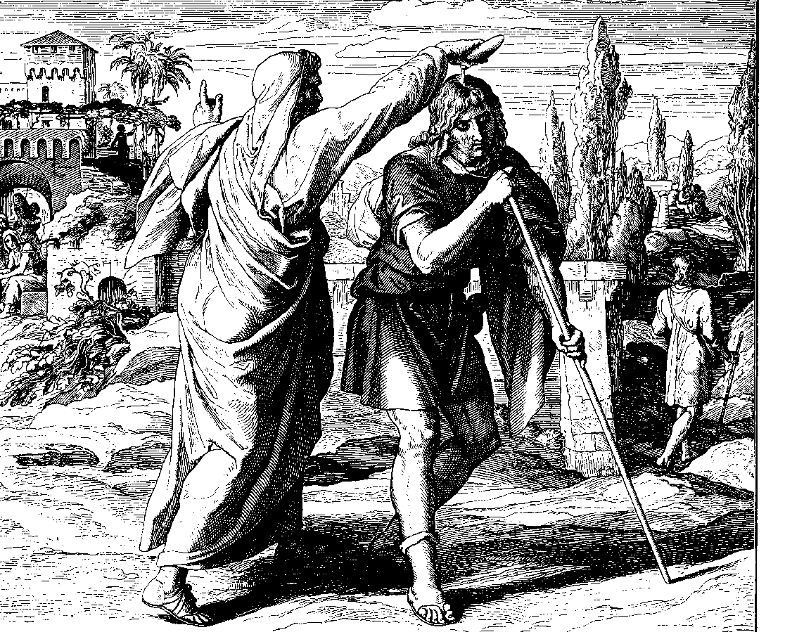 Woodcut for "Die Bibel in Bildern", 1860.